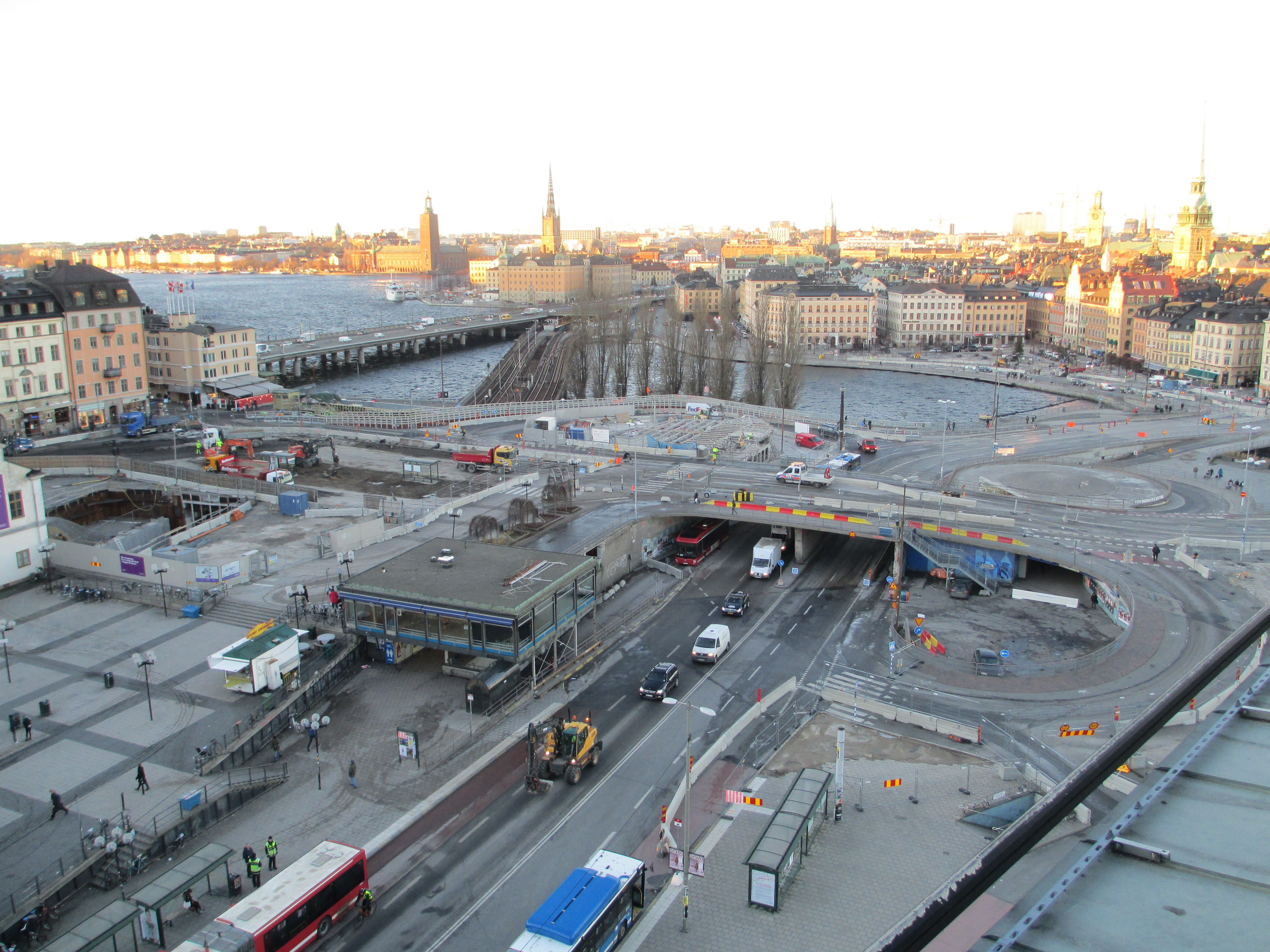 Destruction of historic Kolingsborg building completePlace: Slussen, Stockholm, Sweden